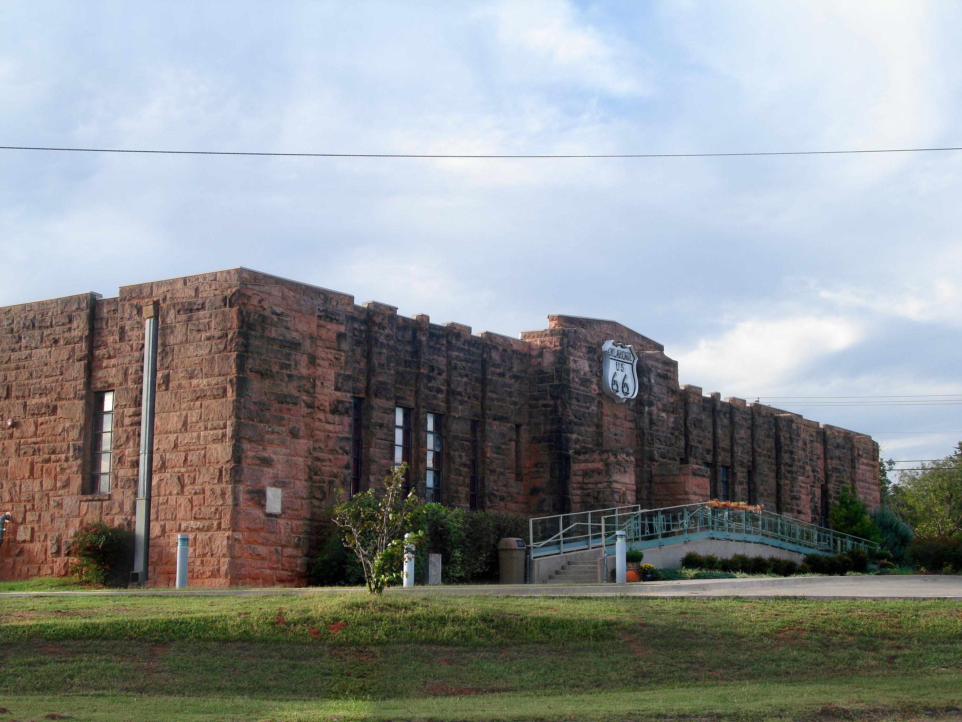 Chandler, Oklahoma USA - Route 66 Interpretive Center (National Register of Historic Places listings in Lincoln County, Oklahoma)